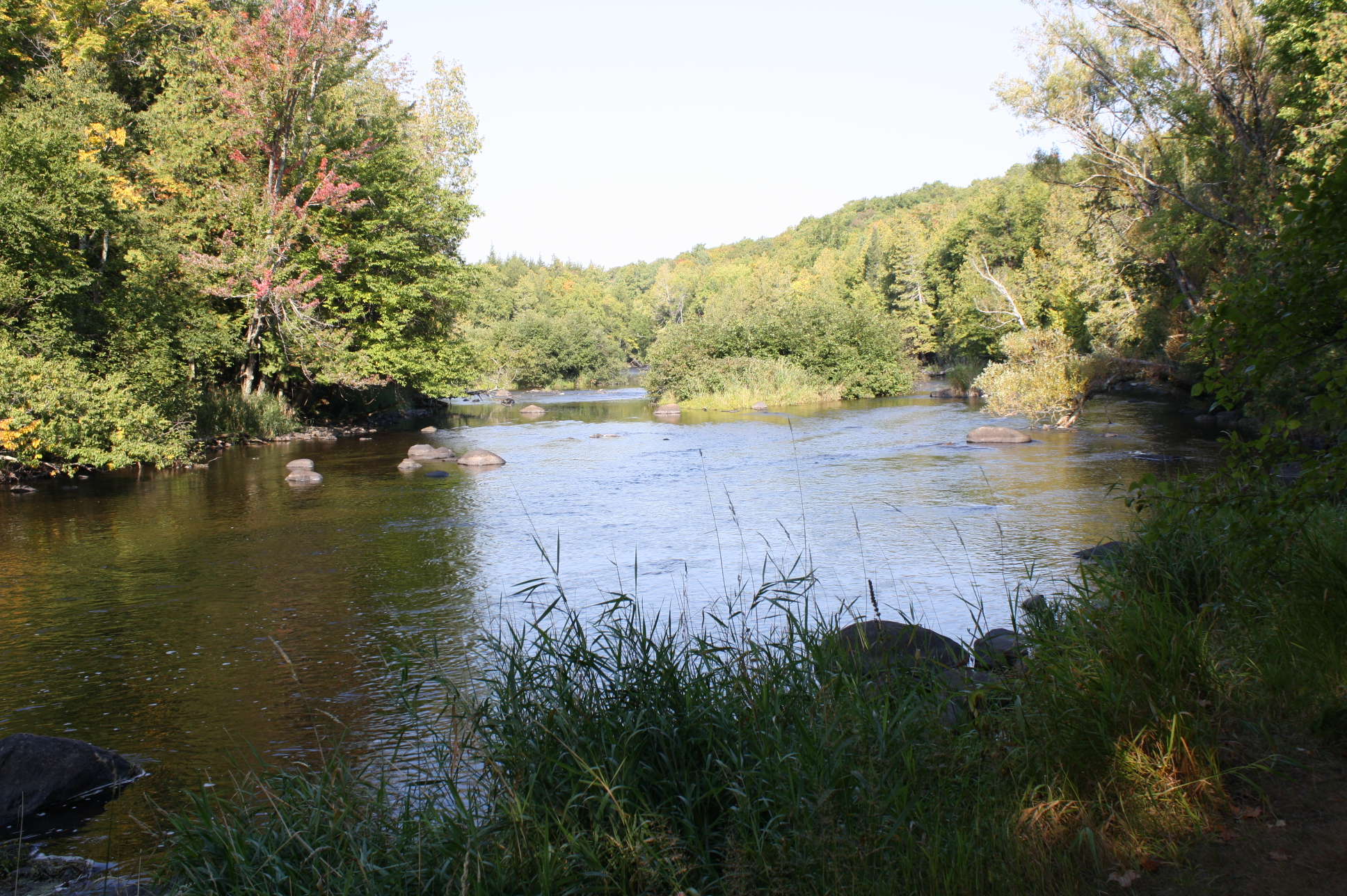 The Wolf River, a tributary of the Fox River, near Lily, Wisconsin, U.S. at a military park along Wisconsin Highway 55. The river is designated a National Wild and Scenic River.